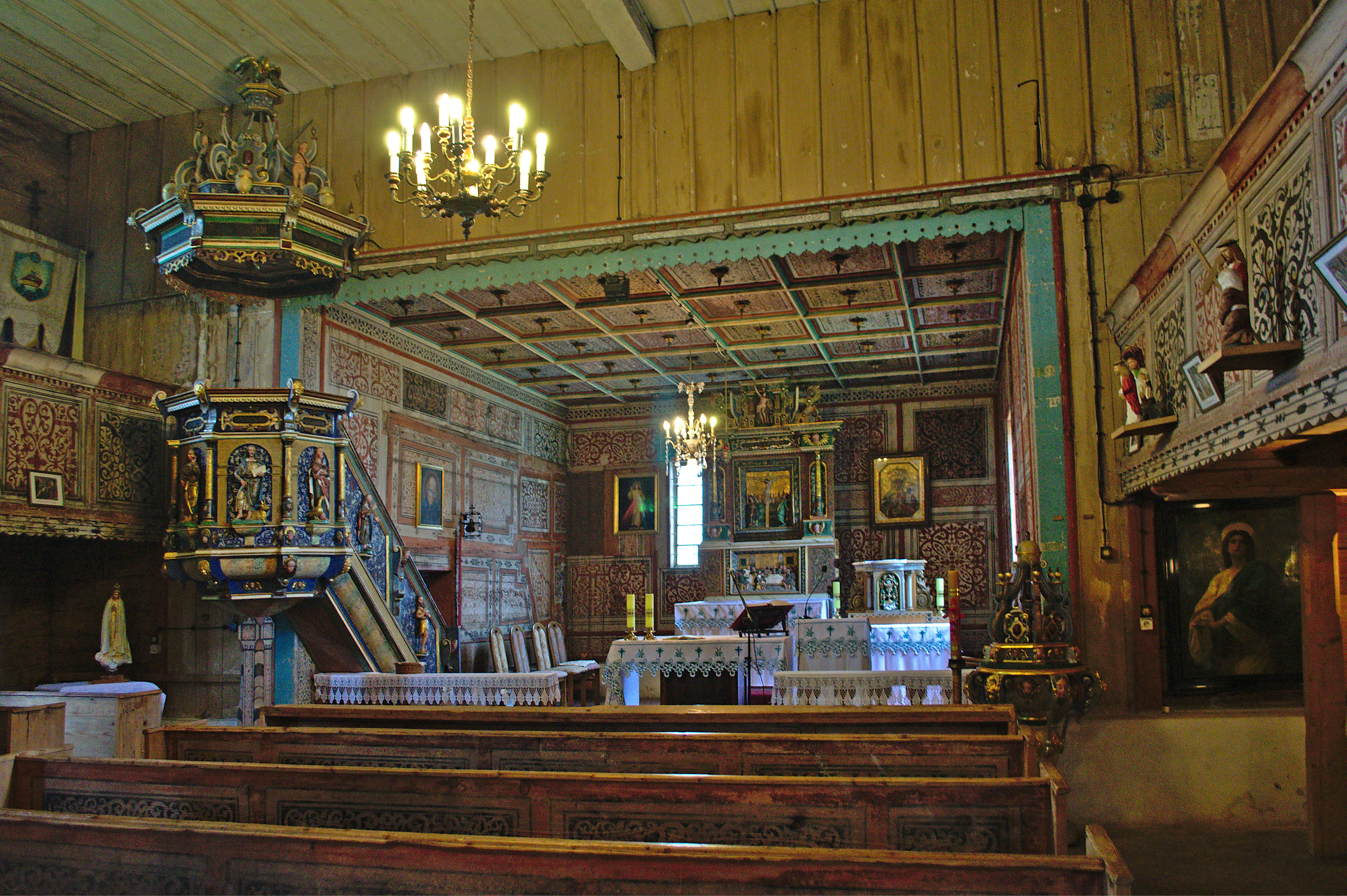 Church in Rybnica Leśna